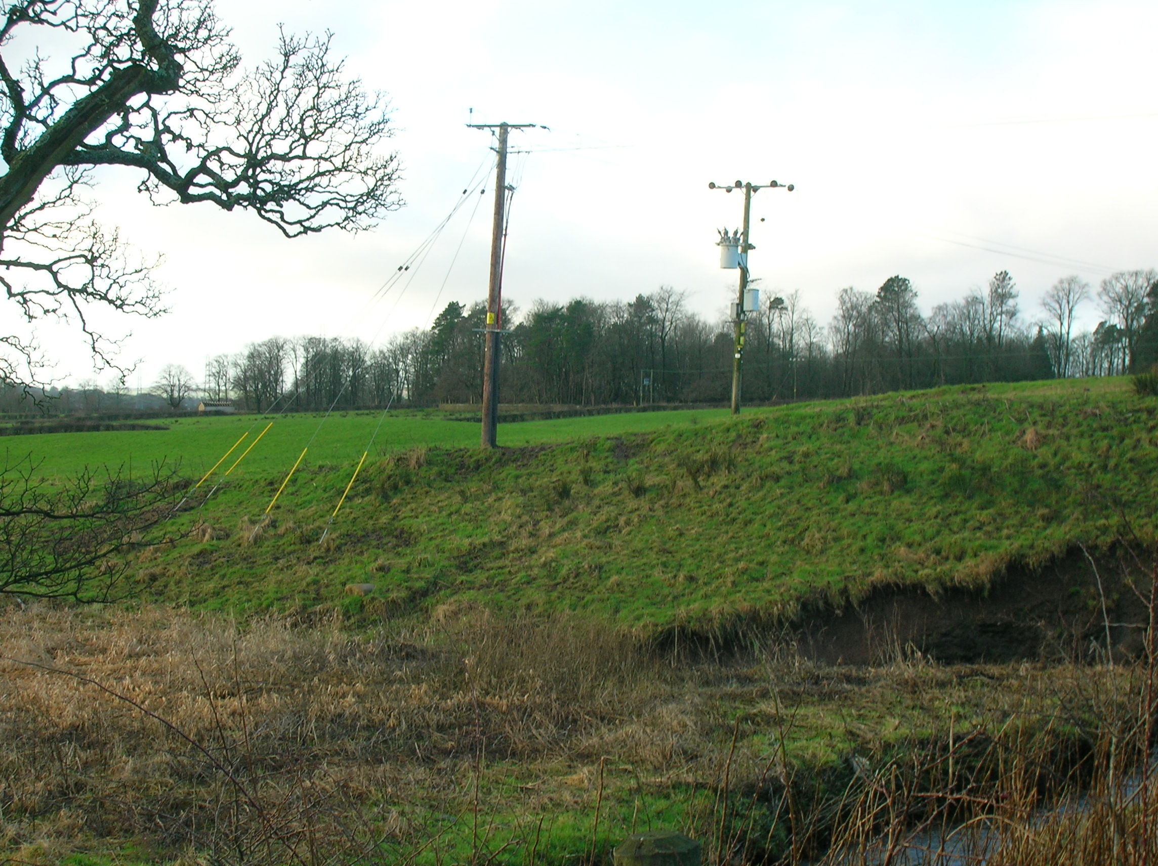 The site of the 1834 Cholera pit near Spier's Old School Grounds, North Ayrshire, Scotland.